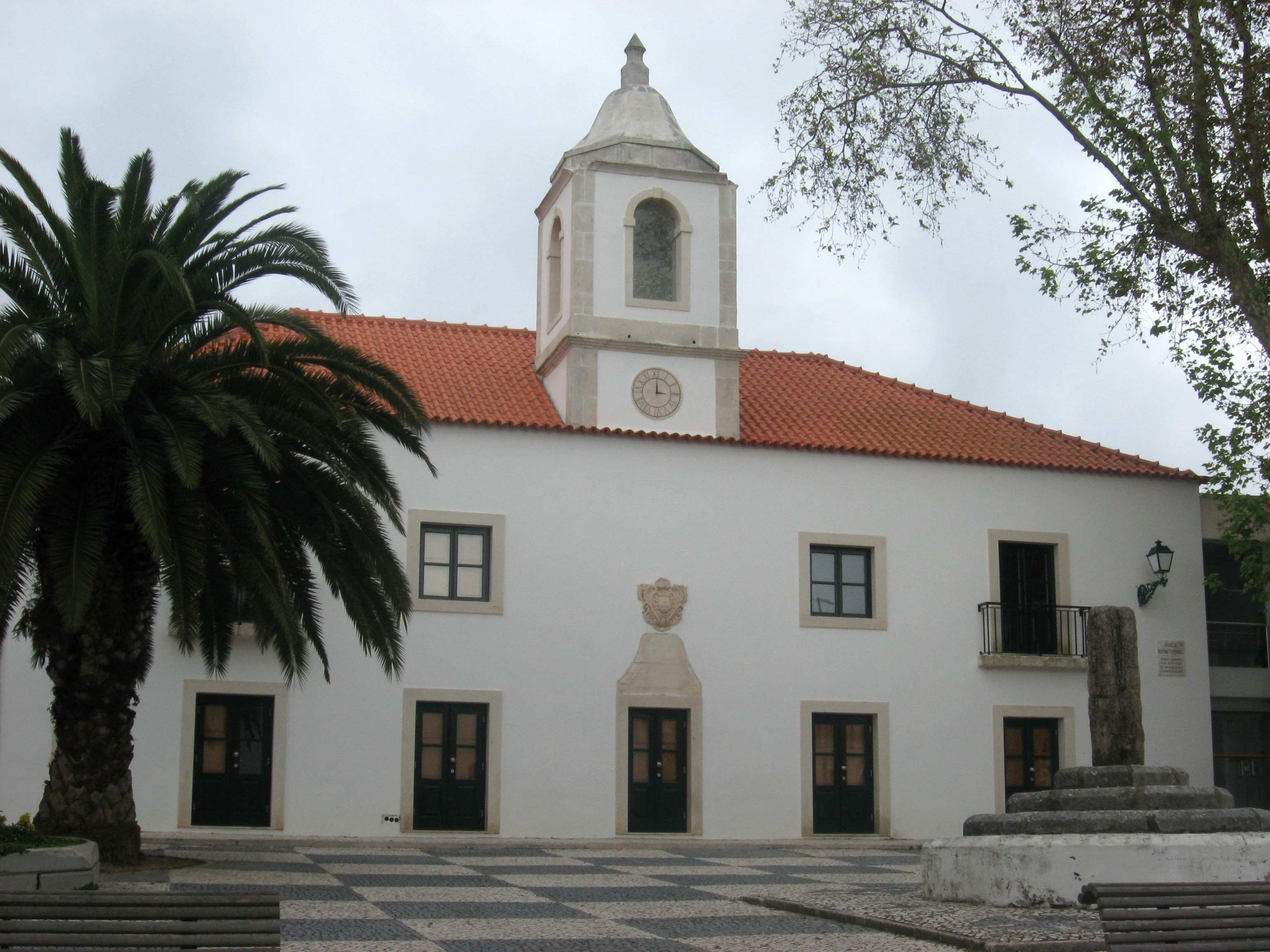 Nazaré, Portugal, Pederneira, old town hall, with pilloy ( of Mosteiro de Alcobaça) base from 1514